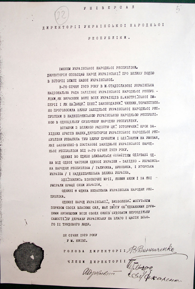 The Act Zluky, signed on 1919.